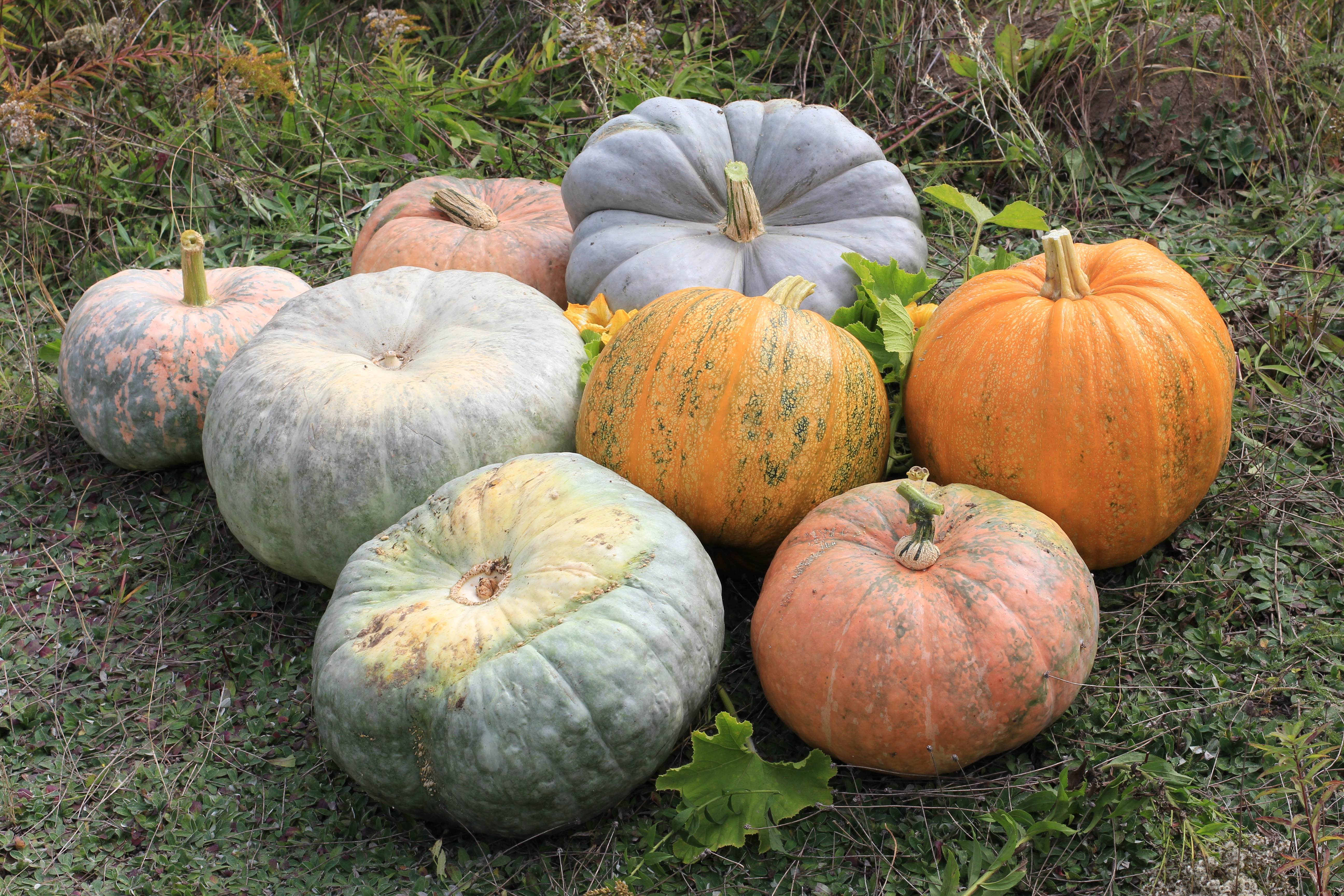 Pumpkins (Cucurbita pepo two bright orange ones in center right) and Squashes (Cucurbita maxima, all others).